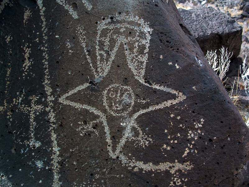 "Star being" from Petroglyph National Monument in Albuquerque, Rinconada section.